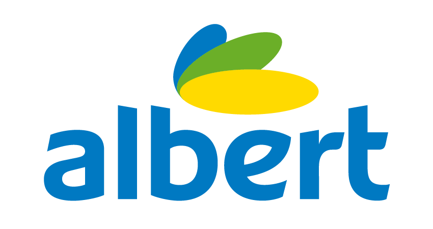 Logo of the czech store chain Albert